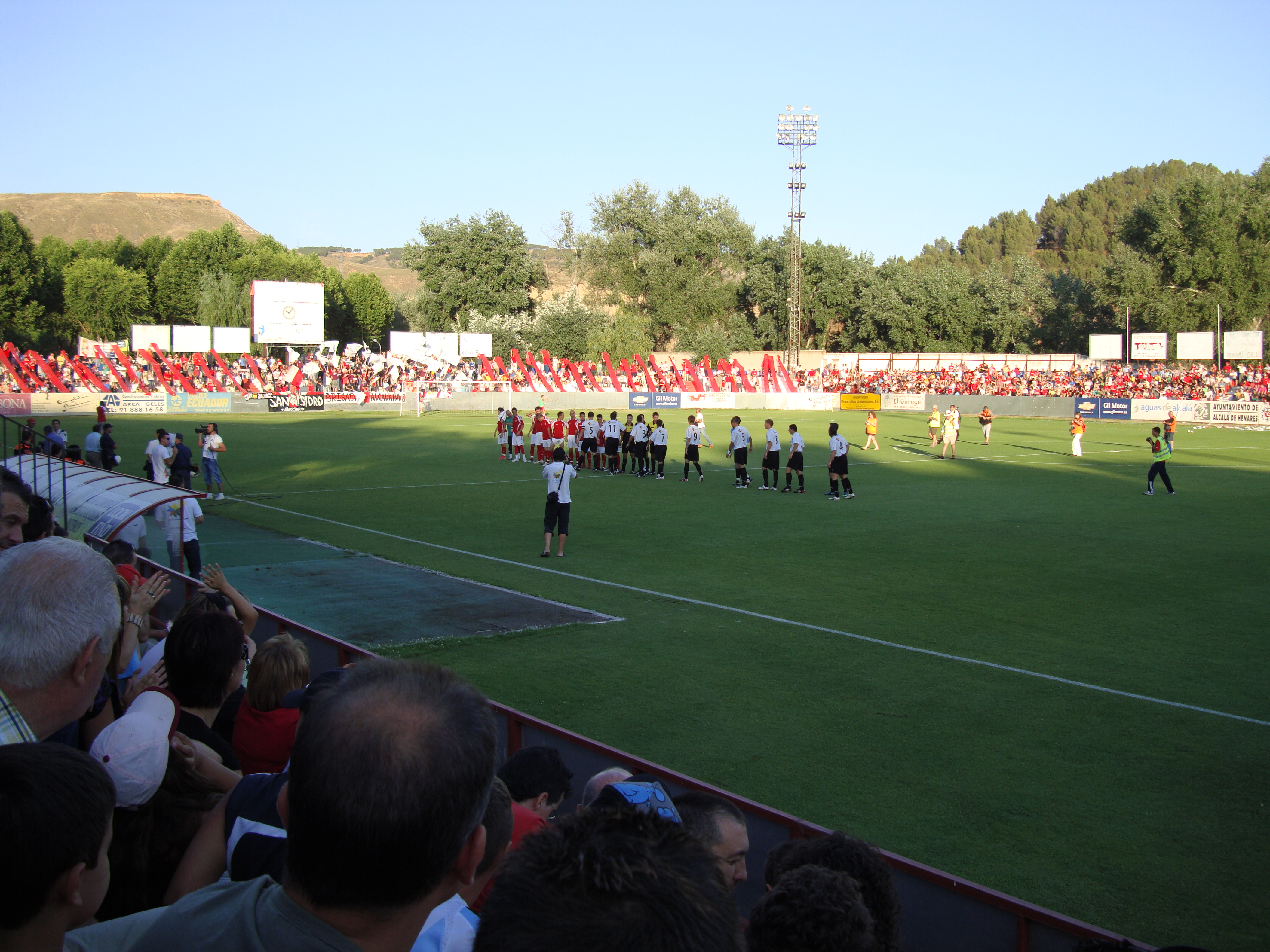 Estadio Municipal del Val (RSD Alcalá-La Nucía)